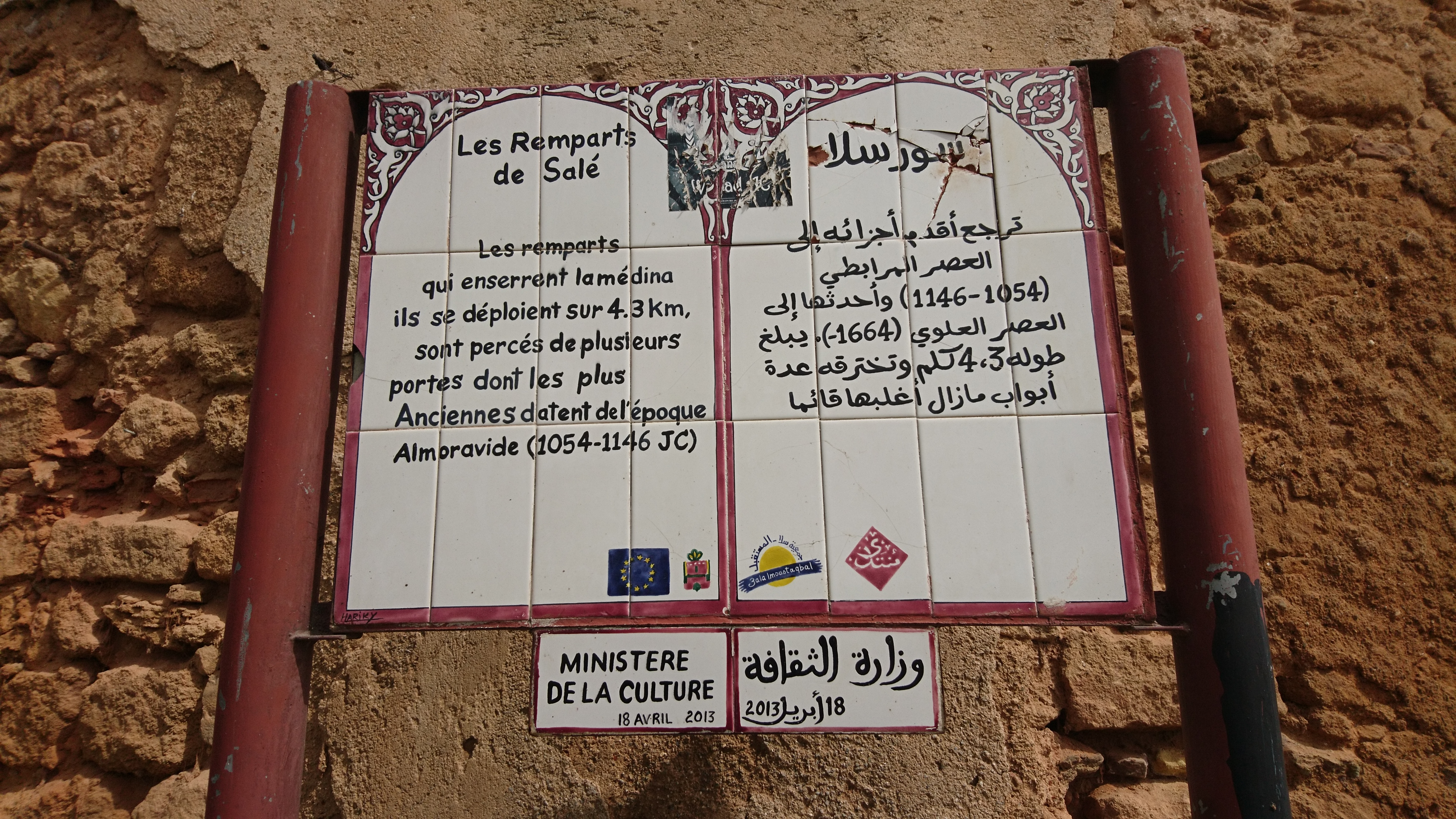 Descriptive with information on Salé wall